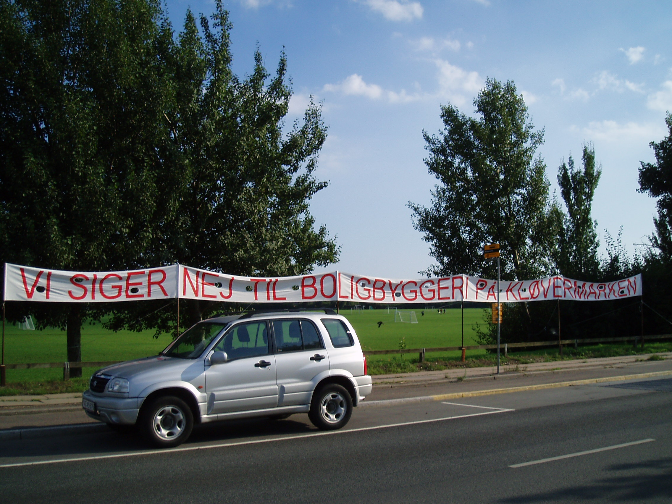 Banner at Kløvermarken on Amager protesting against building plans. The banner reads "We are saying no to house building on Kløvermarken." Kløvermarken is a large green area on. The mayor of Copenhagen is planning to build apartment buildings around the area, which is meeting protests from locals.